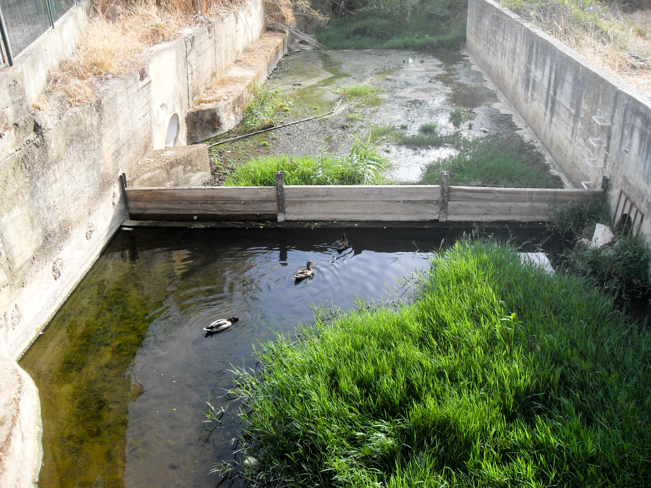 Fauna e flora na Ribeira de Caparide em São Pedro do Estoril.